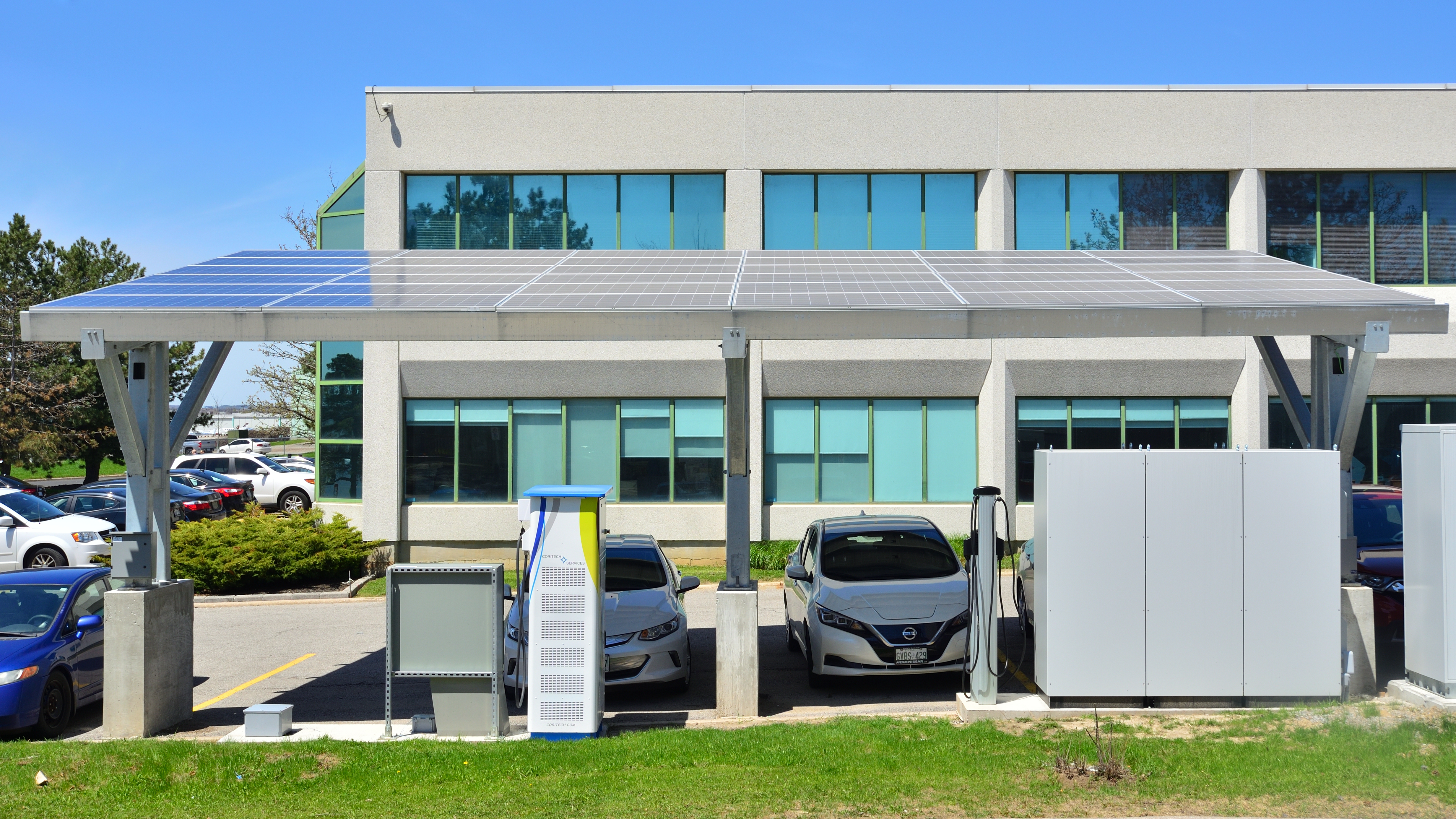 A solar powered EV charging station